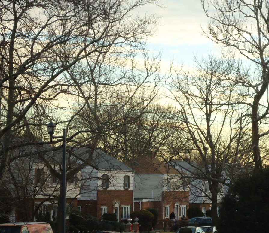 Street scene in suburban Long Island, in Elmont, New York, in winter.